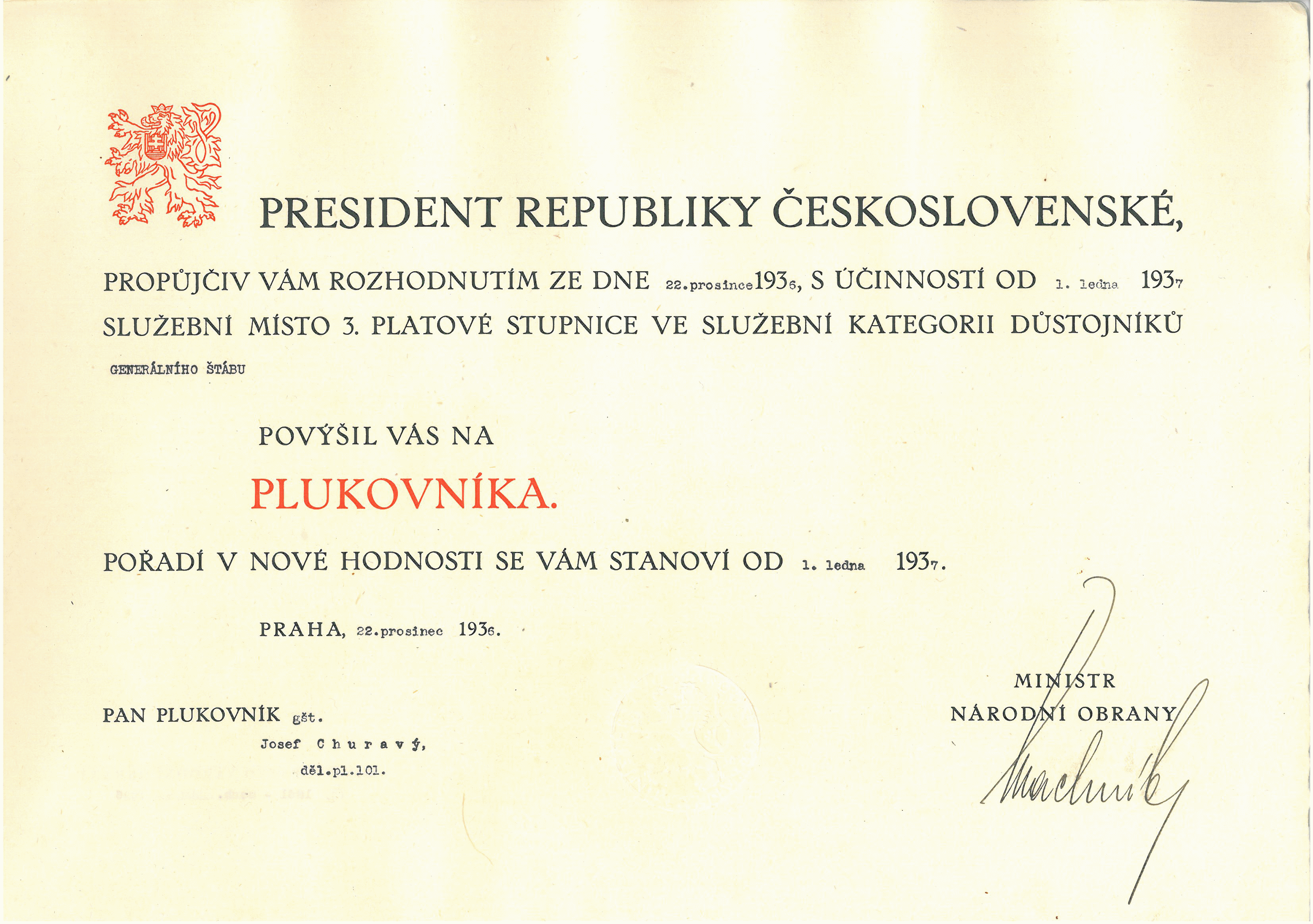 A document announcing the promotion of Josef Churavý to the rank of Colonel of General Staff. President of the Czechoslovak Republic, gave you the decision of 22 December 1936, with effect from January 1, 1937, the post of 3rd salary scale in the service category of the General Staff - promoted you to the Colonel. The rank in the new position will be set since the January 1, 1937. Prague, December 22, 1936. Mr. Colonel of General Staff Josef Churavy, artillery regiment No. 101. Signed by: Minister of National Defense František MACHNÍK